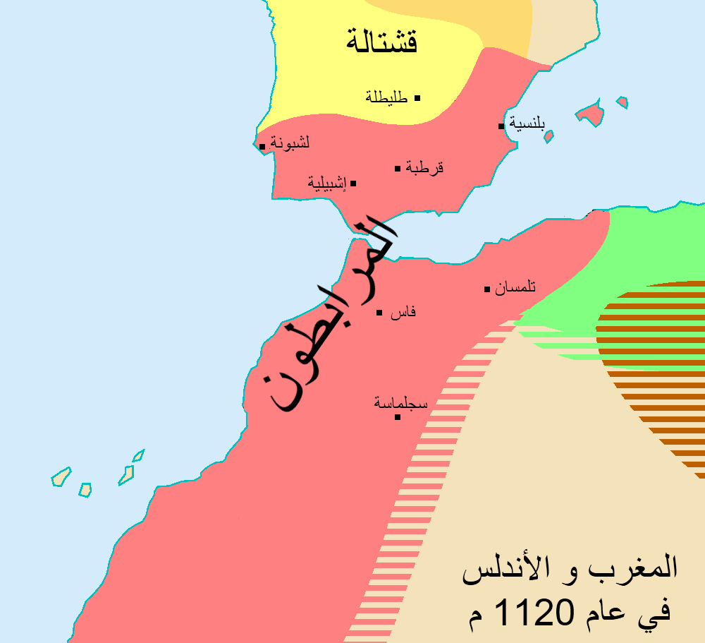 Map of the Murabitun Empire in 1120 in Arabic